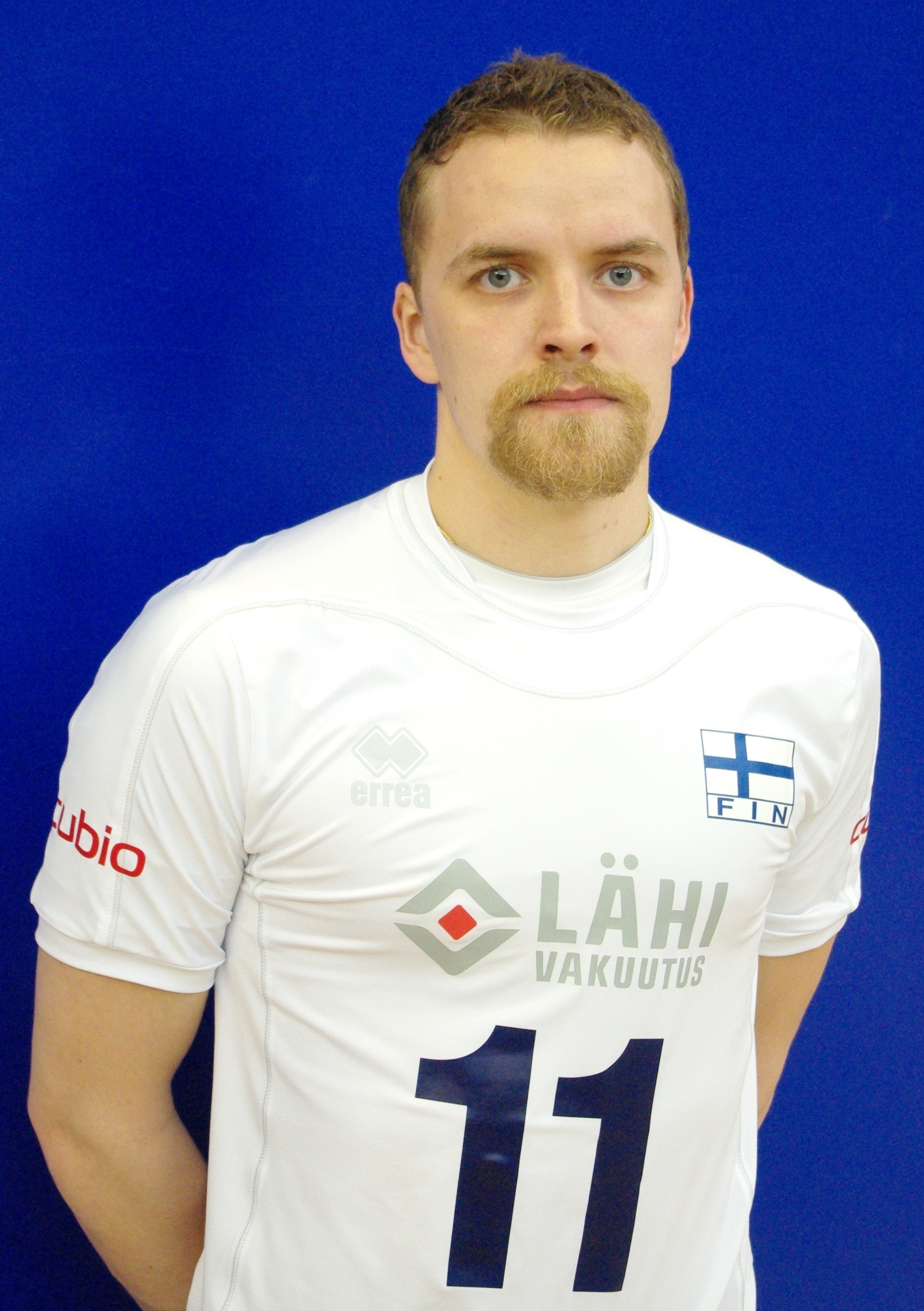 Mäntylä Jesse